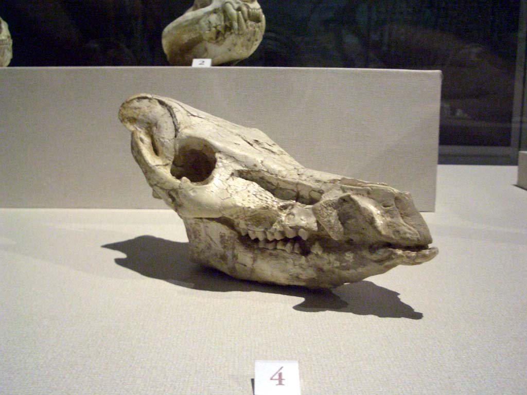 Chleuastochoerus skull displayed in Hong Kong Science Museum